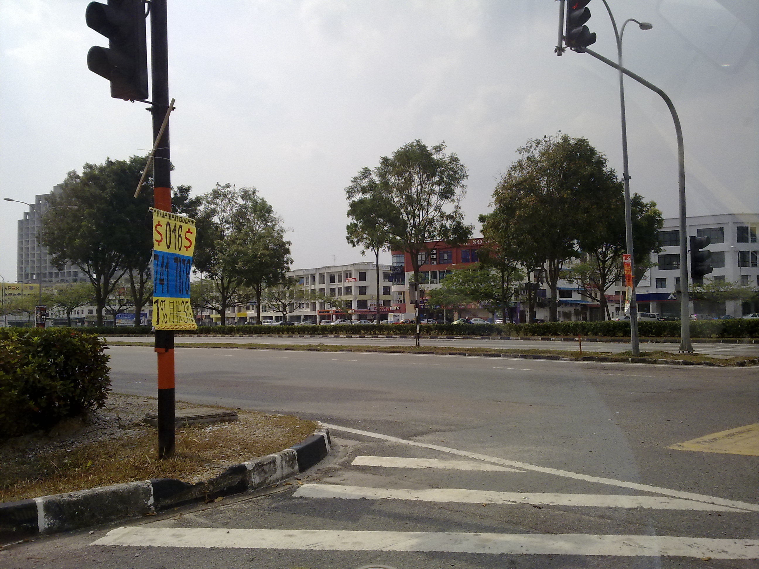 Pusat Bandar Baru Permas Jaya